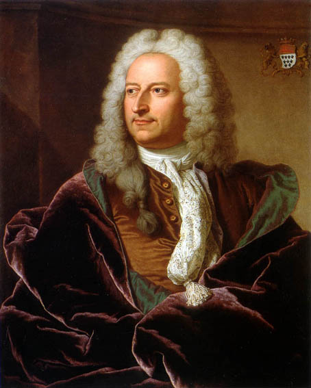 Abraham Van Hoey par Hyacinthe Rigaud